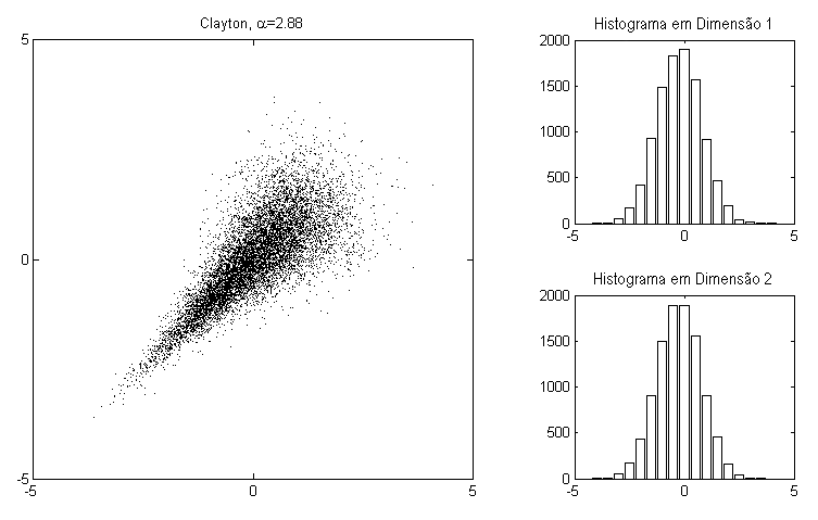 Two-dimensional sample with Clayton dependence and normal marginal distributions.